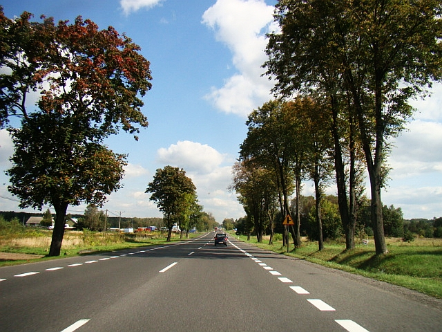 National road 4 (Poland)